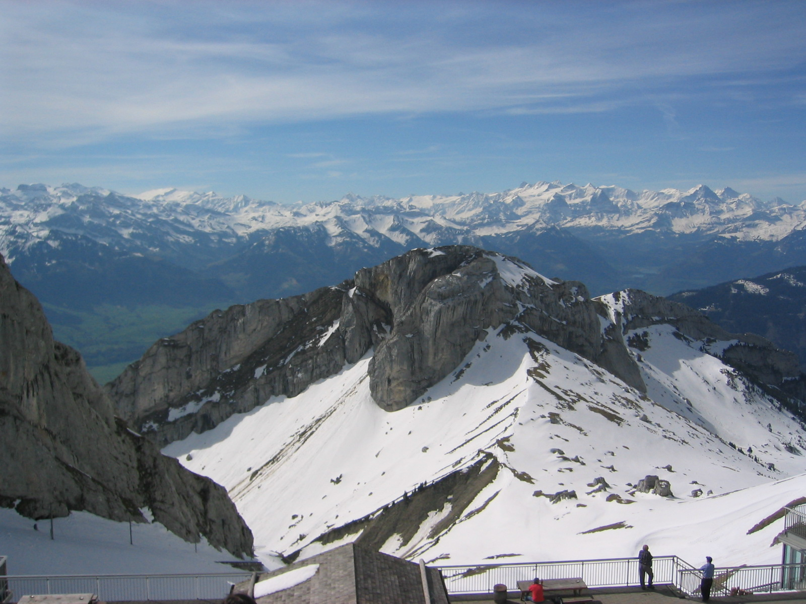 Pilatus